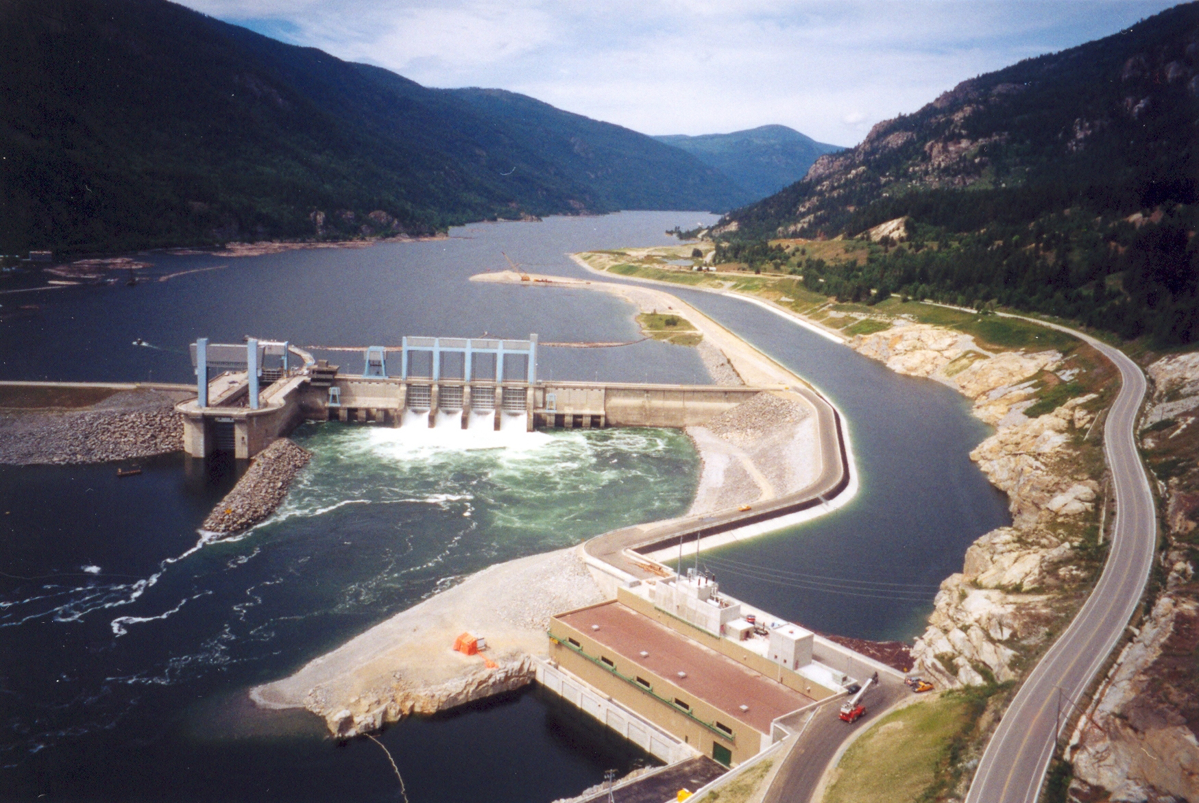 This is a public photo.